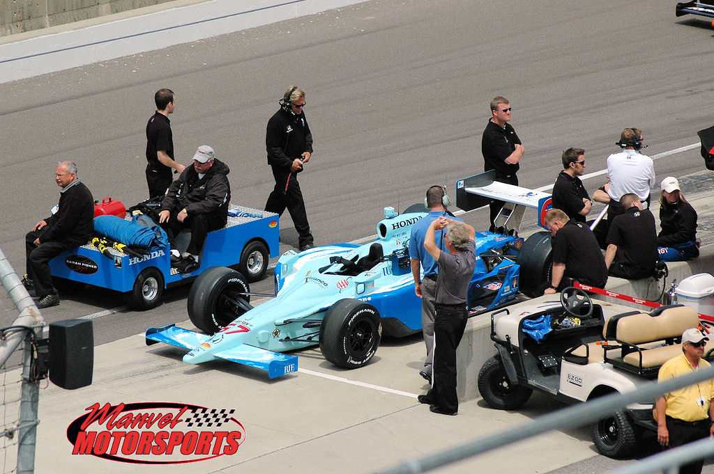 The Sarah Fisher Racing team and car and during practice for the 2008 Indy 500